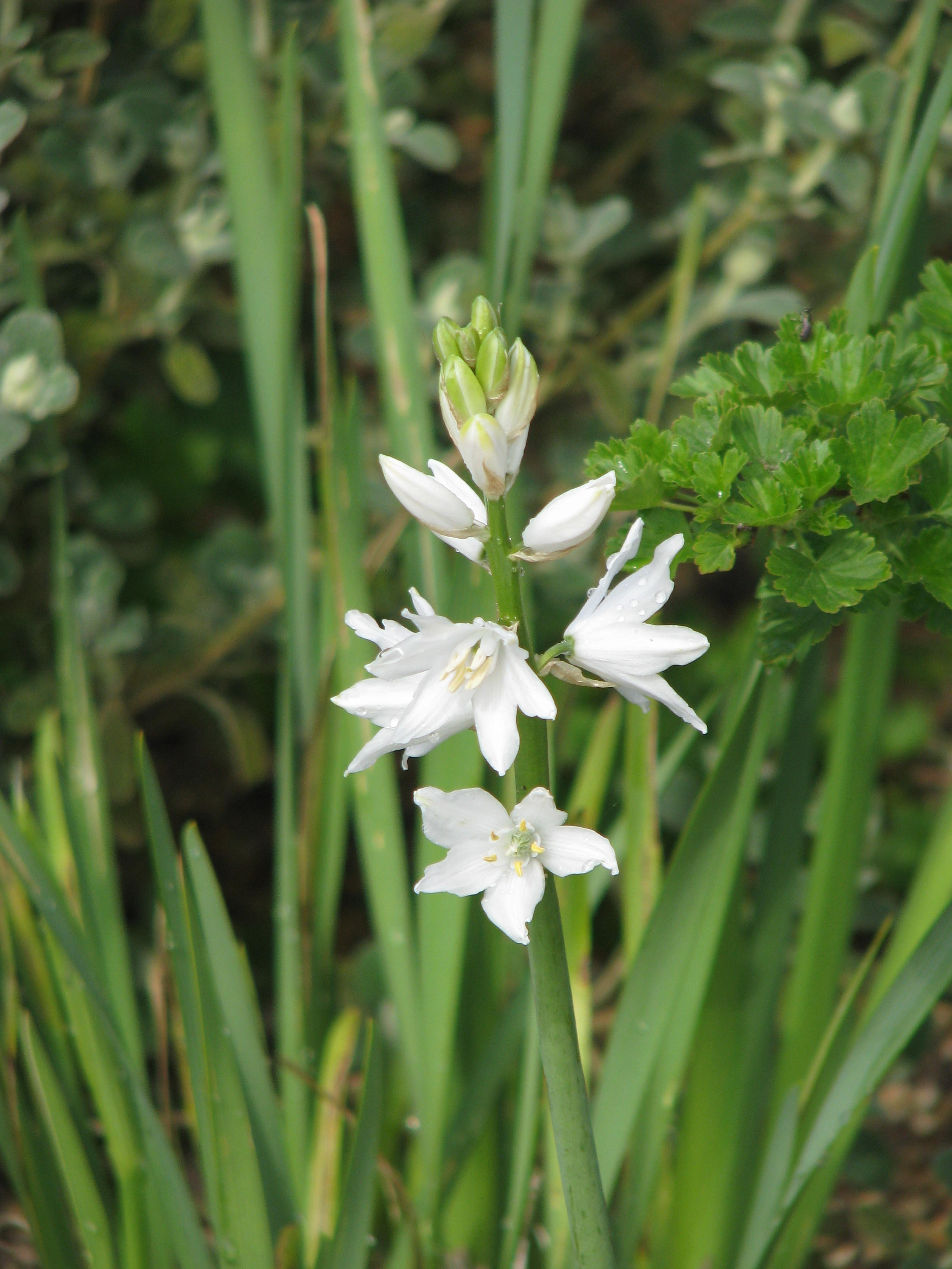 First flowering here of this good-looking species